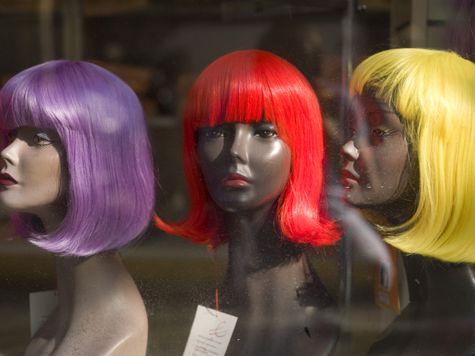 Paris 19